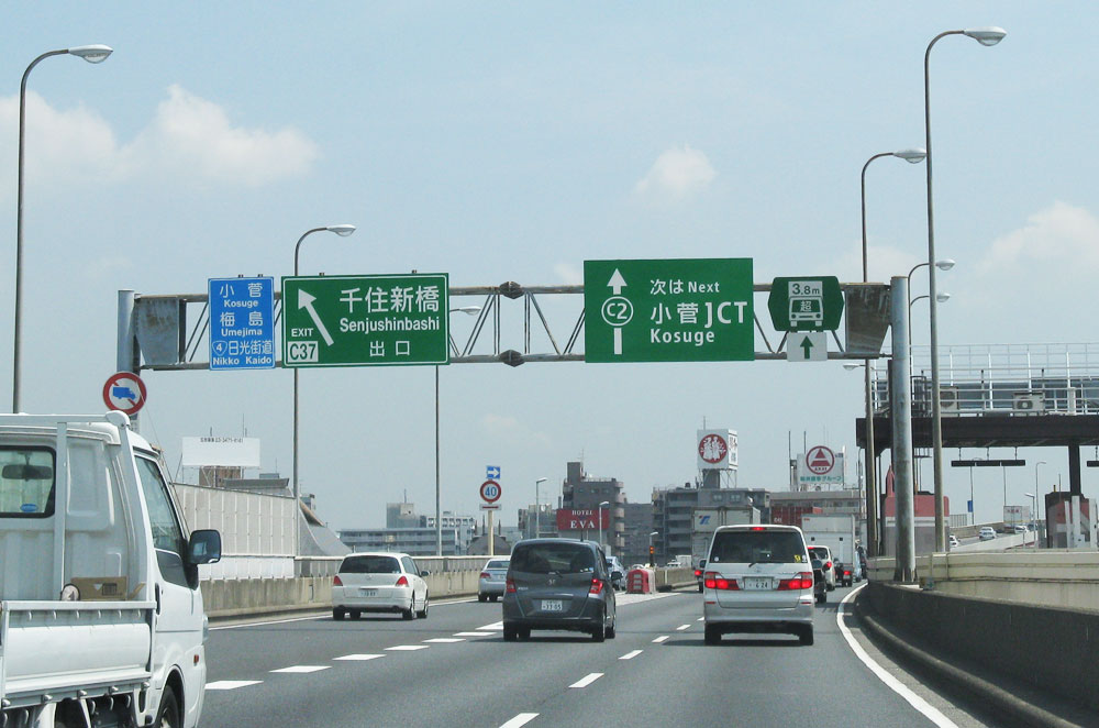 Senjushinbashi Interchange on the Metropolitan Expressway Route C2